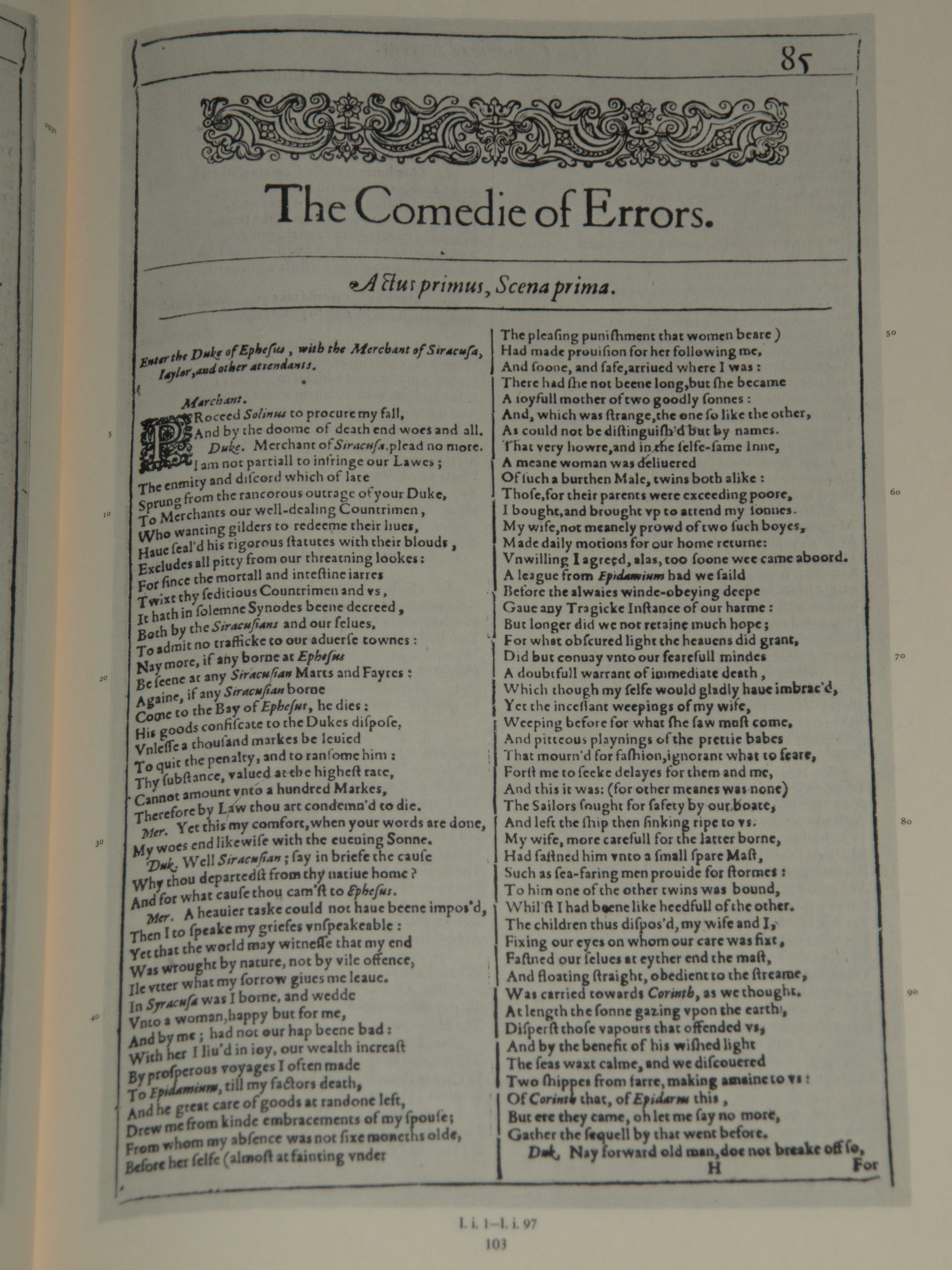 Photo of the first page of The Comedy of Errors from a facsimile edition of the First Folio of Shakespeare's plays, published in 1623